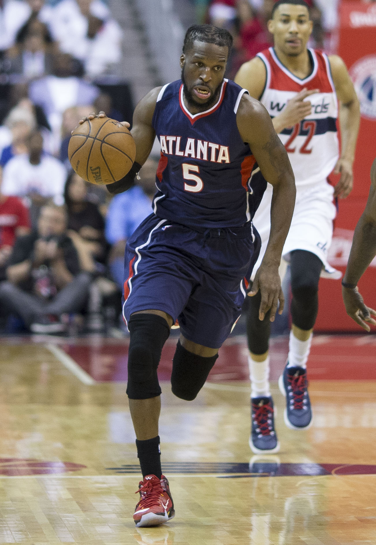 Hawks at Wizards 5/9/15